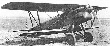 Boeing XP-8.